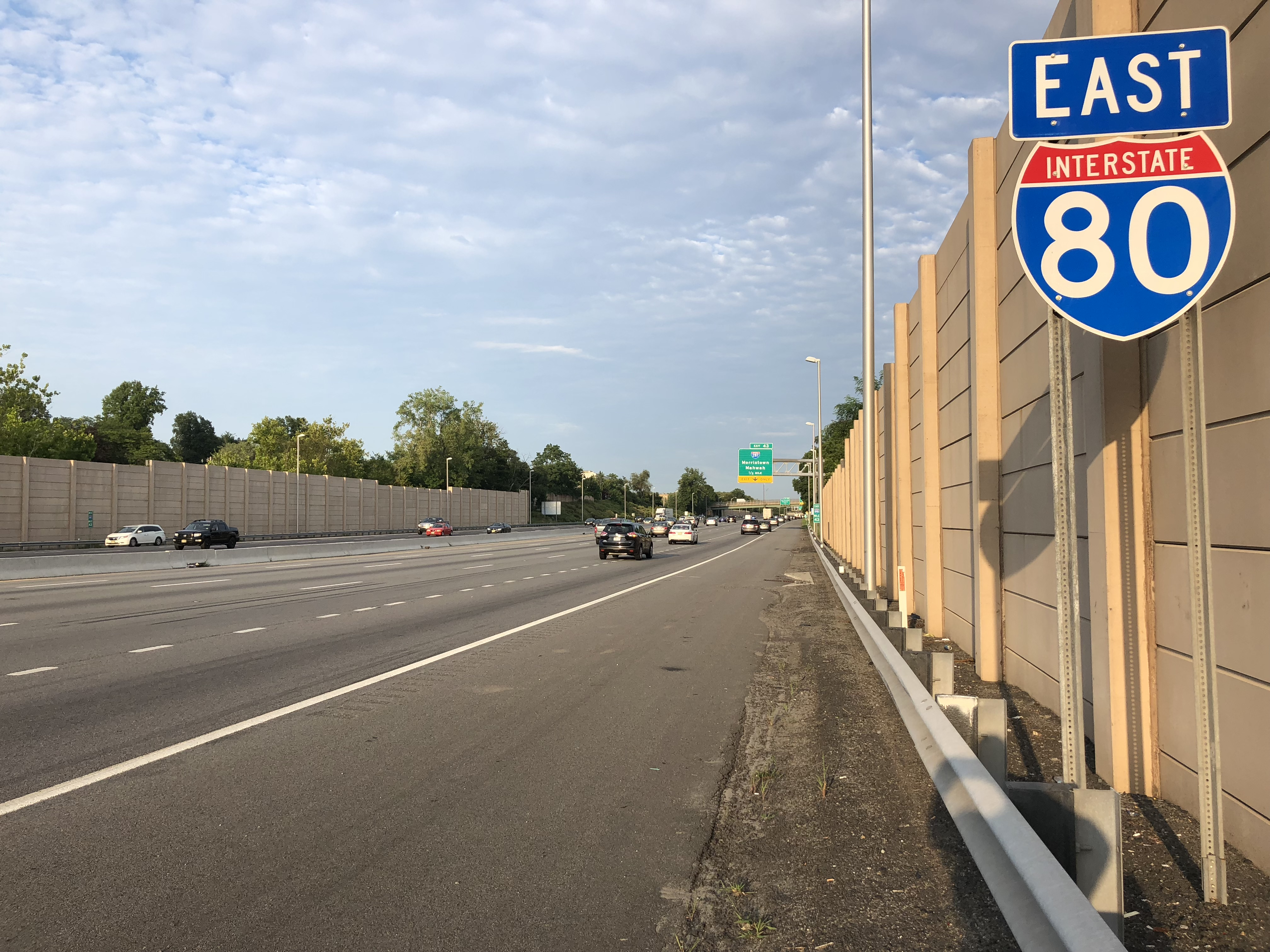 View east along Interstate 80 between Exit 42 and Exit 43 in Parsippany-Troy Hills Township, Morris County, New Jersey